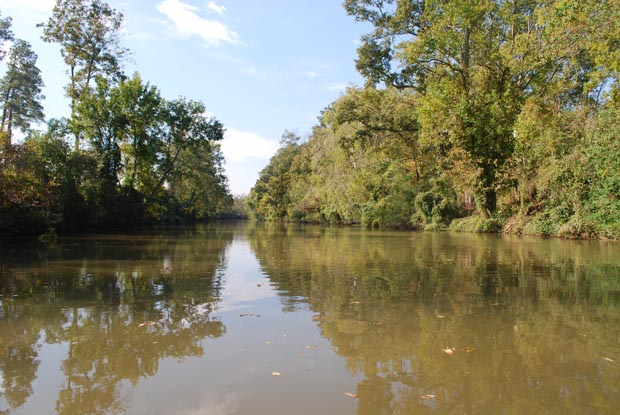 Bayou Teche in St. Landry Parish, Louisiana, October 2011.